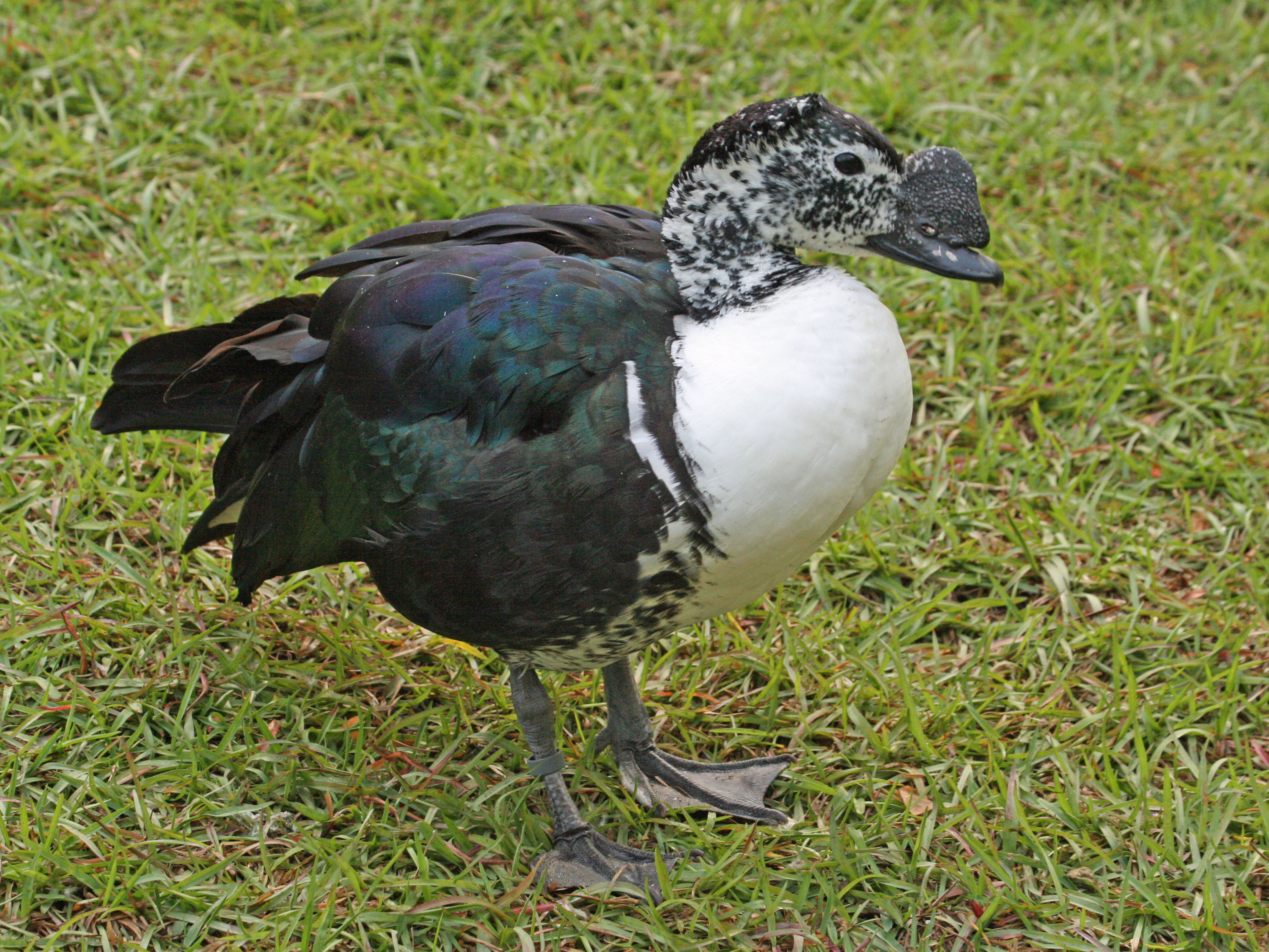 Sarkidiornis sylvicola - Sylvan Heights Waterfowl Park, North Carolina.